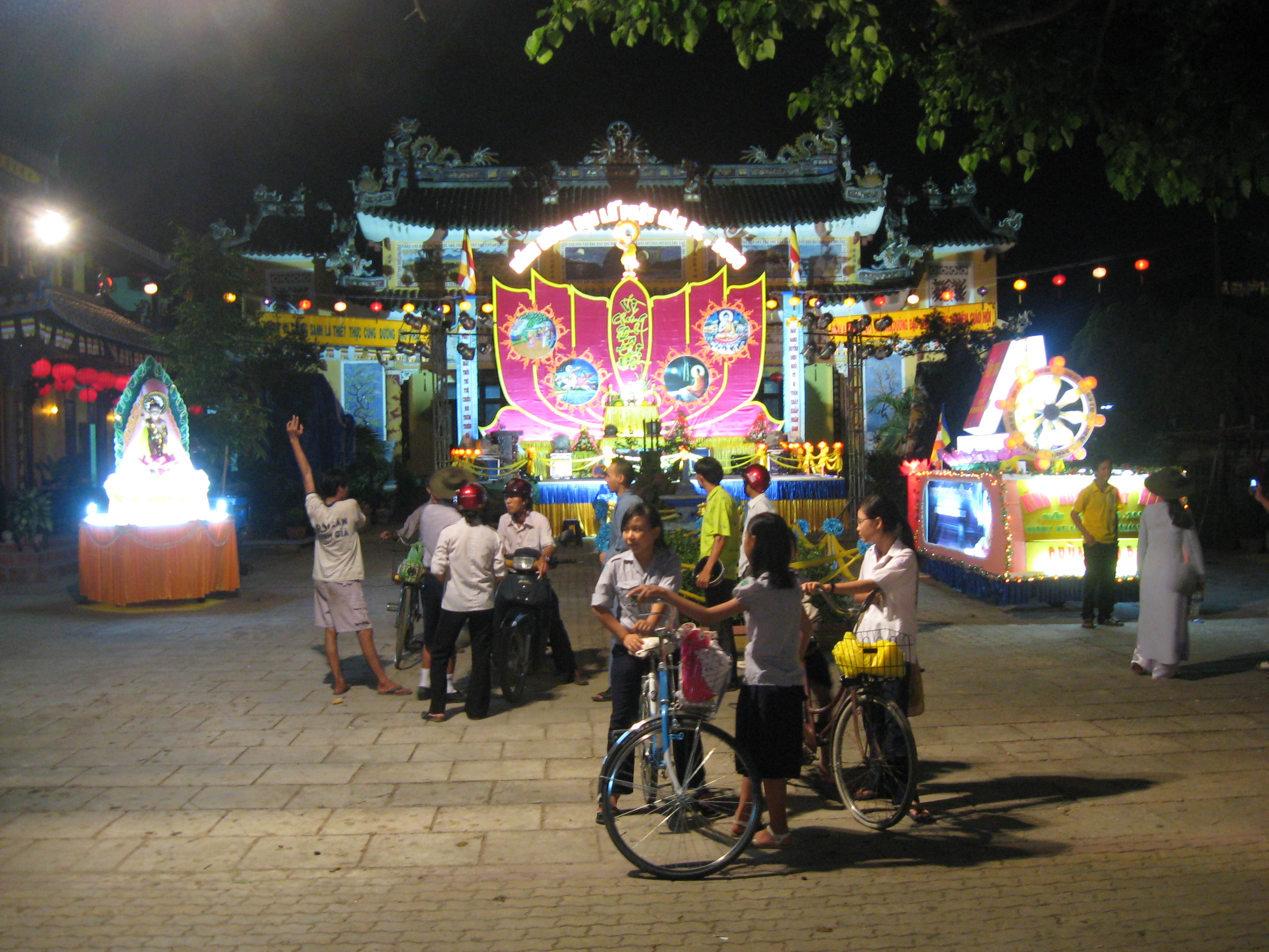 A view of a pagoda in Hoi An during the city's Full Moon Festival.